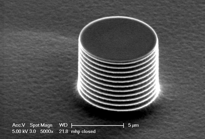 Scanning electron micrograph of a silicon pillar fabricated using photolithography and deep reactive-ion etching (Bosch process)